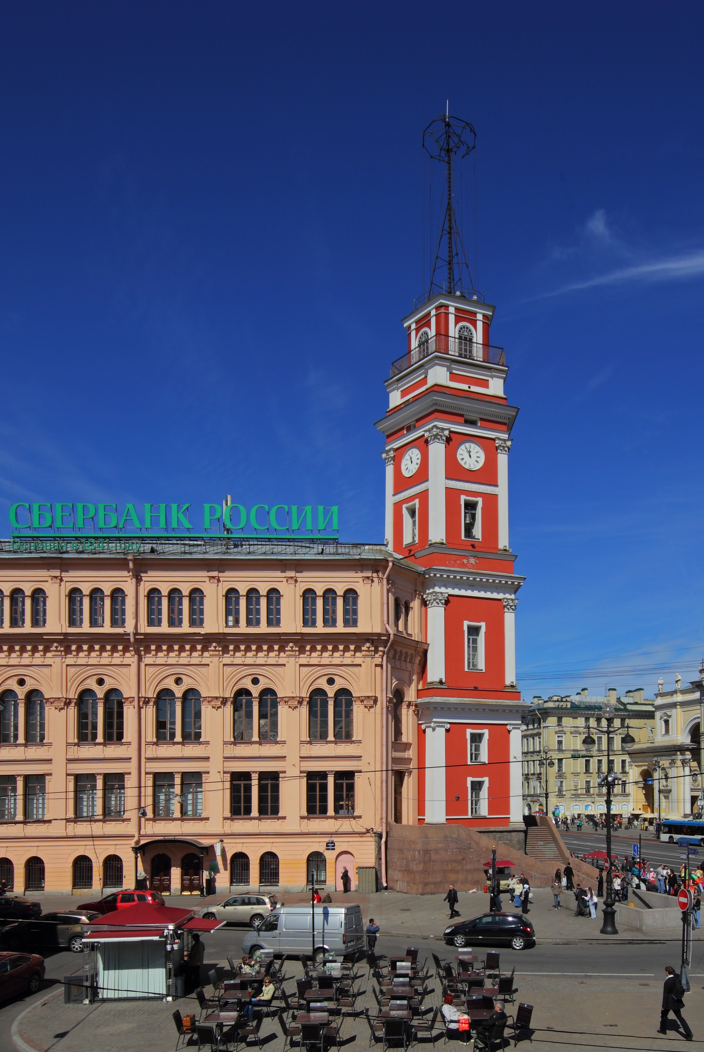 Saint Petersburg, Russia. Nevsky Avenue. City Duma Tower.